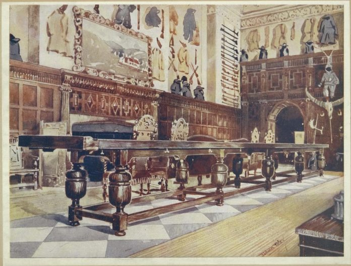 Back in the 15th century, the locals in England played a game of sliding a large coin, known as a “groat,” down a table. This game was called slide-groat or shove-groat. (Courtesy of the New York Public Library, Digital Collections)